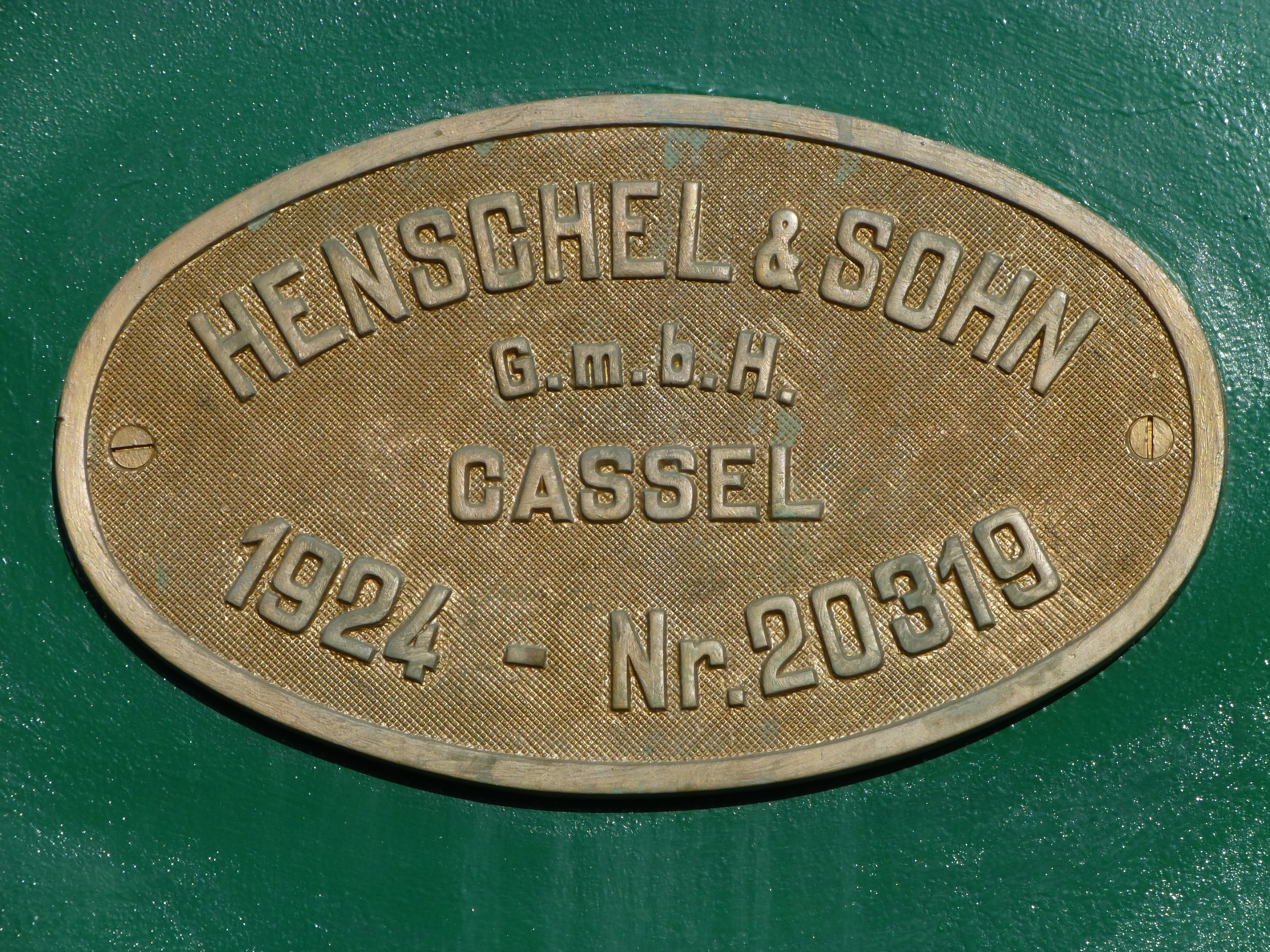 Steam locomotive built in 1924, by Henschel & Sohn in Kassel, Germany.